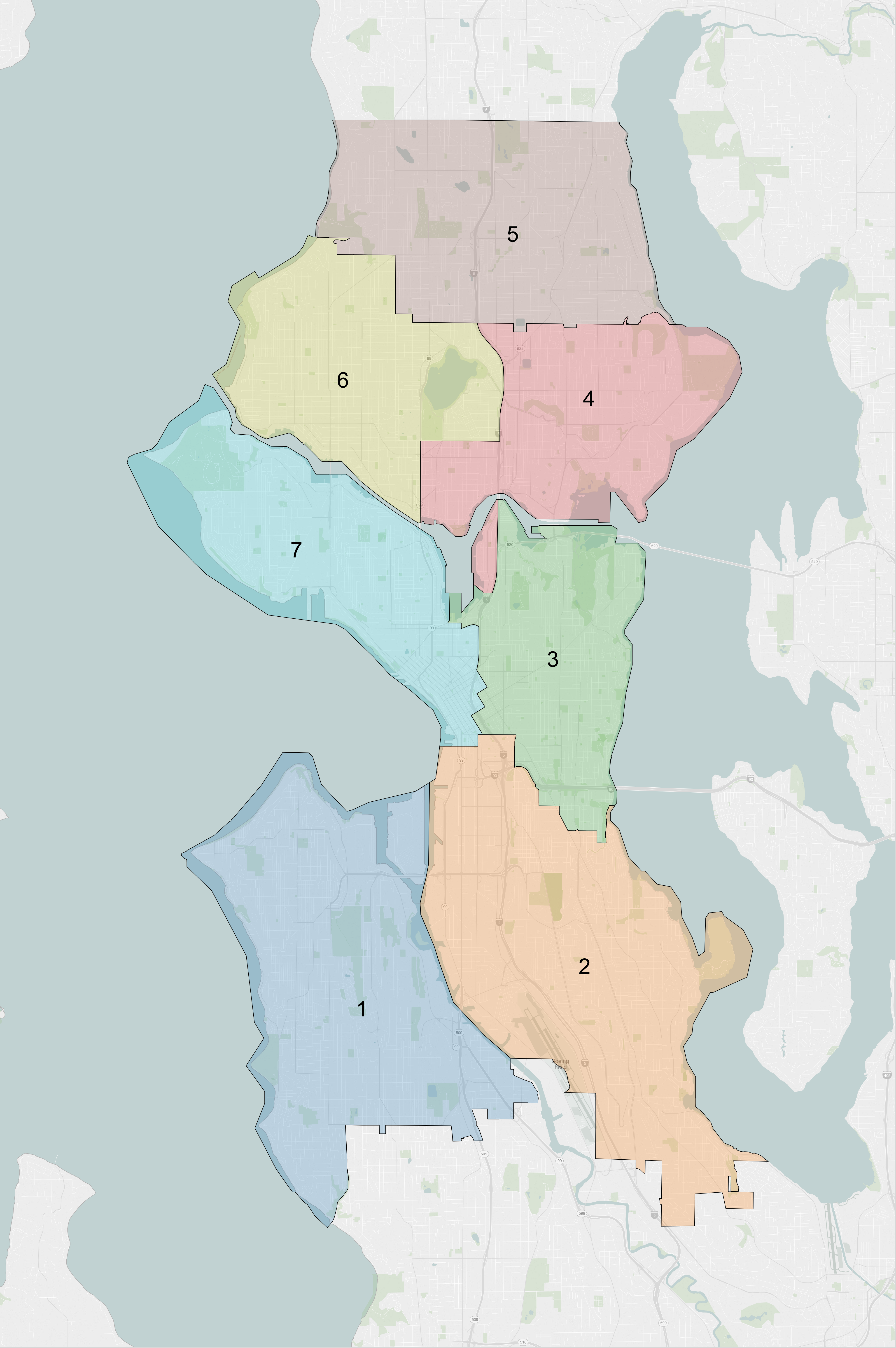 Map of the Seattle City Council Districts.